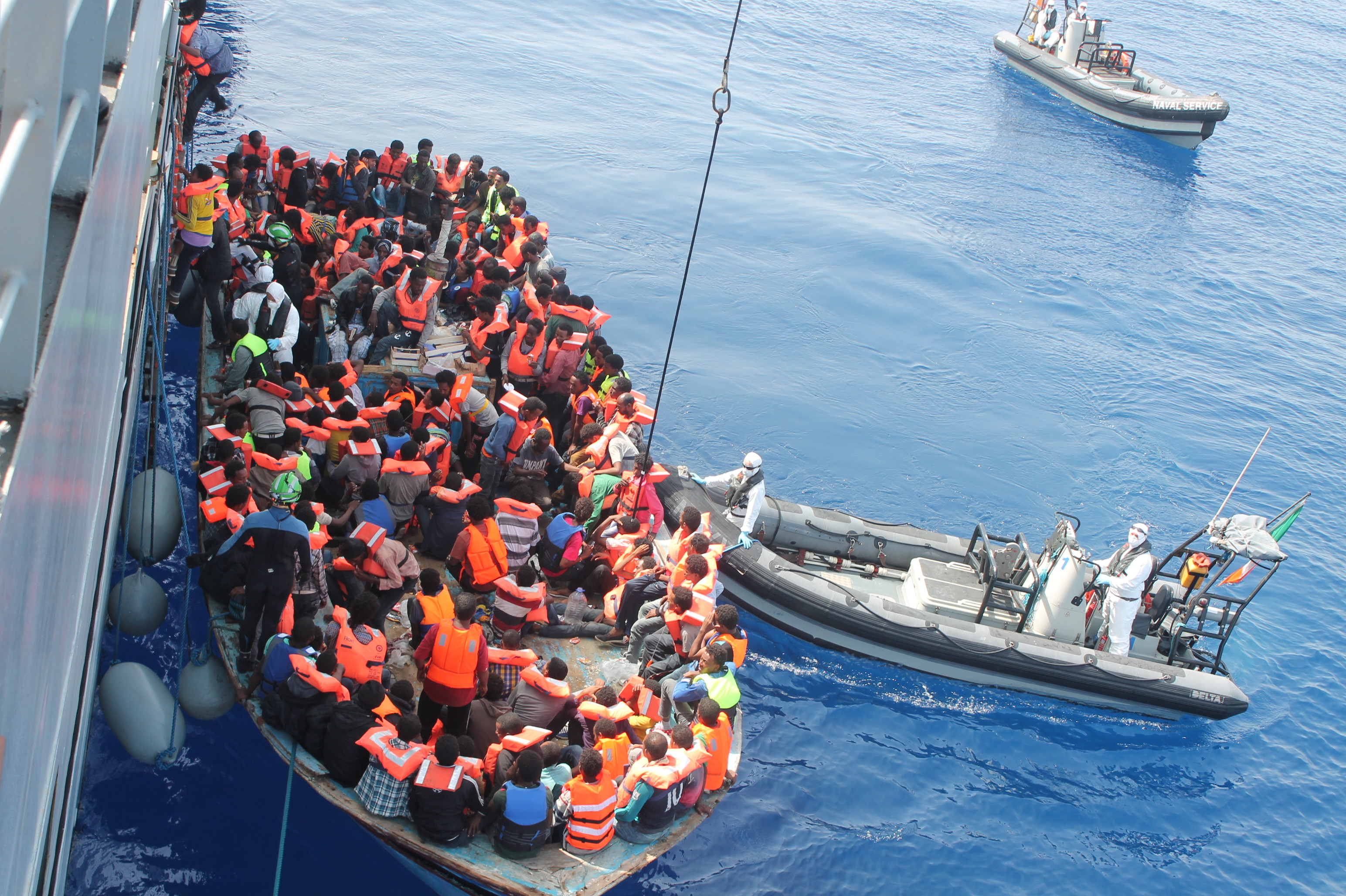 Irish Naval personnel from the LÉ Eithne (P31) rescuing migrants as part of Operation Triton.